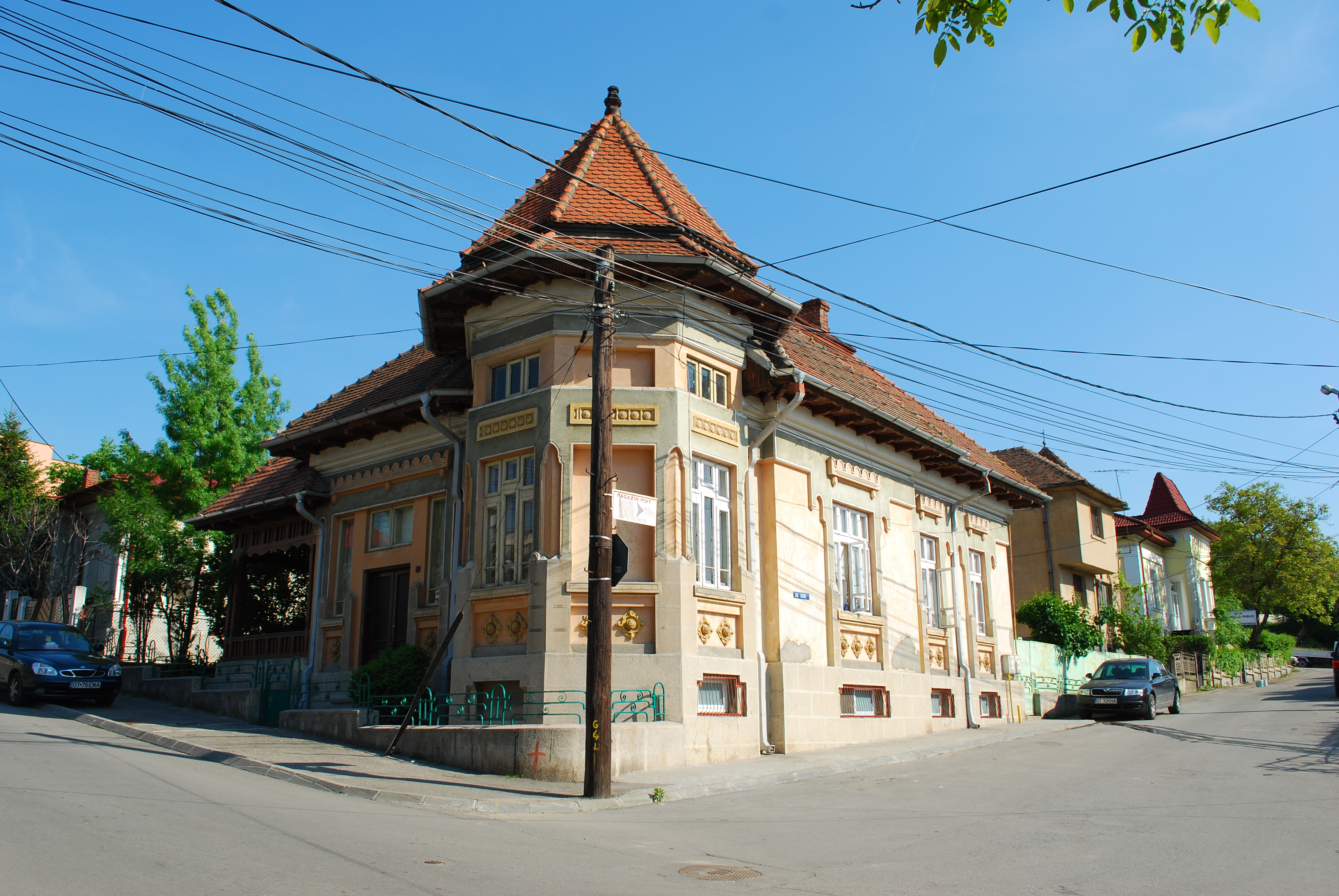 Historic house at the corner of Horea and Cloşca streets in Slatina, Olt County, Romania (OT-II-m-B-08574)